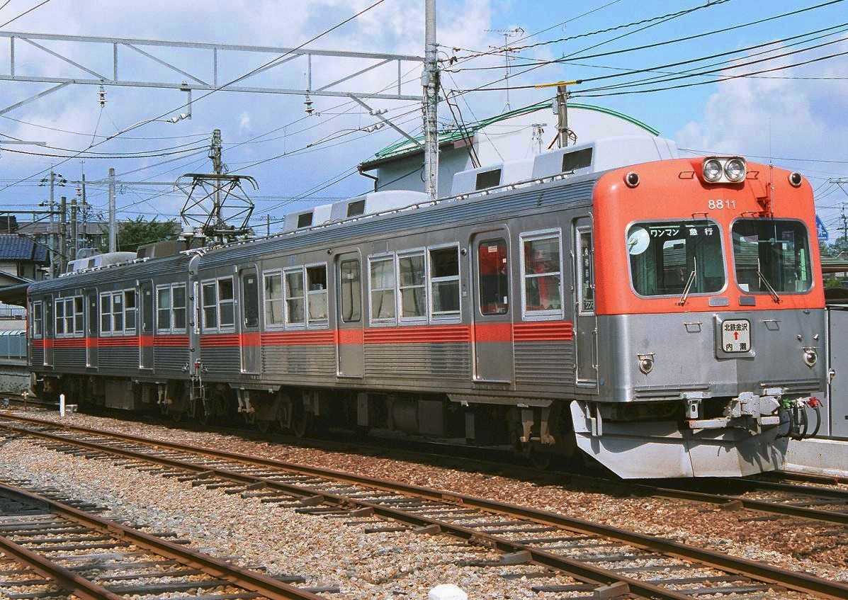 Hokuriku Railway 8800 series set 8801 at Uchinada Station on the Asanogawa Line